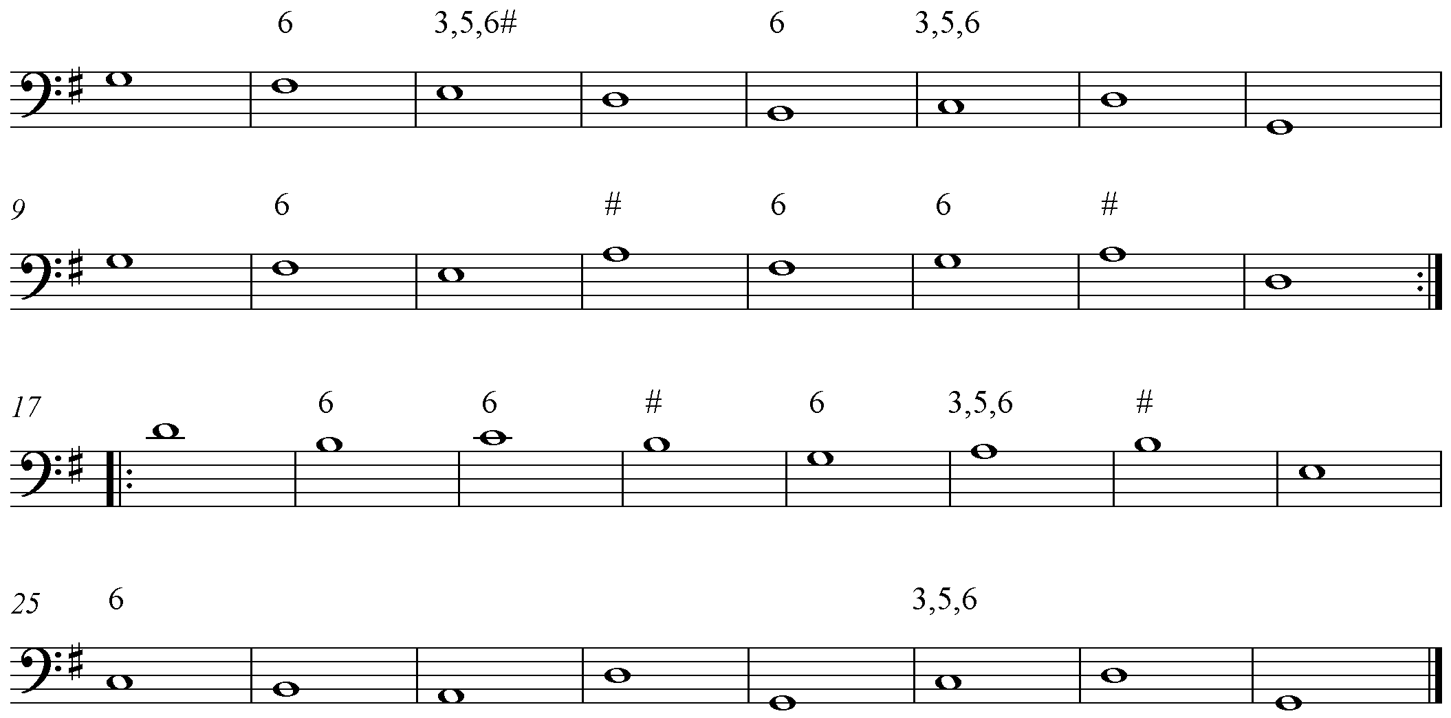 The bass line of Bach's Goldberg Variations, as annotated by Ralph Kirkpatrick. Digital image of the notes made with Sibelius 4 by Opus33. This music is in the public domain. This image is hereby released into the public domain by Opus33.